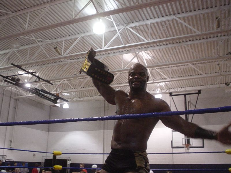 Professional wrestler Elix Skipper at a NWA Cyberspace show in September 2005